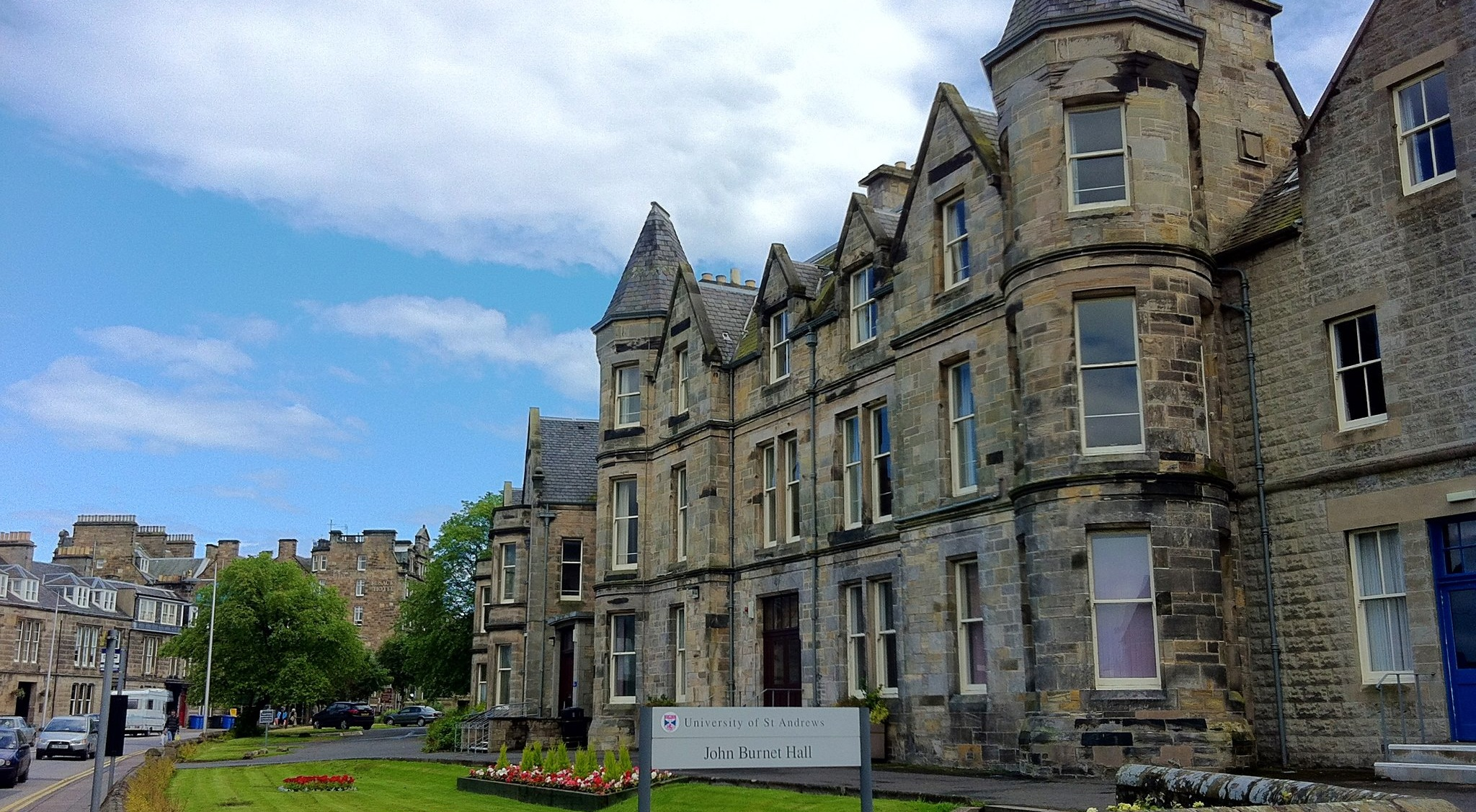 The "Atholl" section of John Burnet Hall, which was originally the Atholl Hotel.